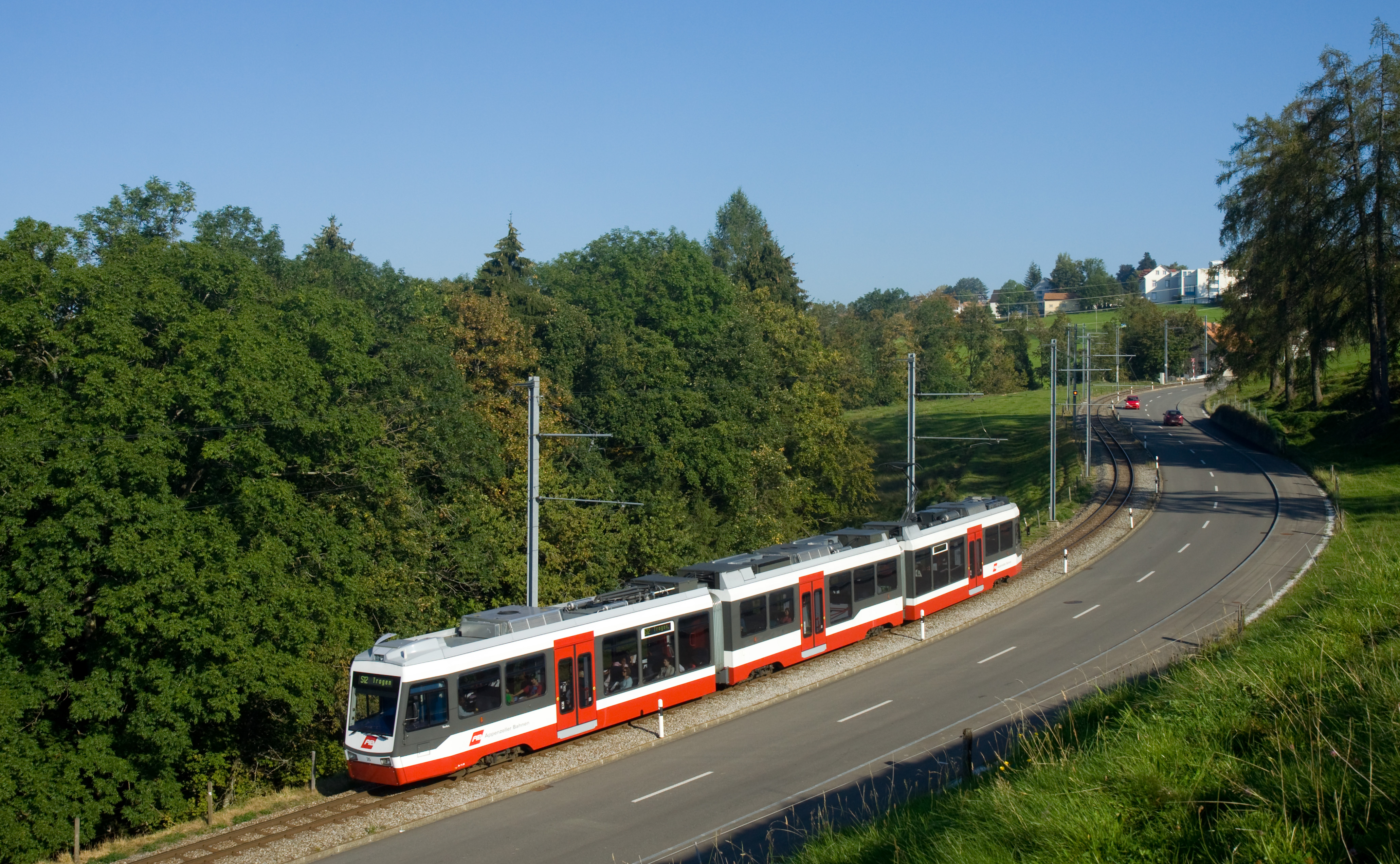 Be 4/8 of Appenzeller Bahnen on the Trogenerbahn line between the stops Rank and Vögelinsegg, Switzerland.